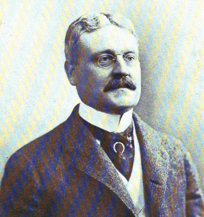 Ira W. Wood, New Jersey Congressman